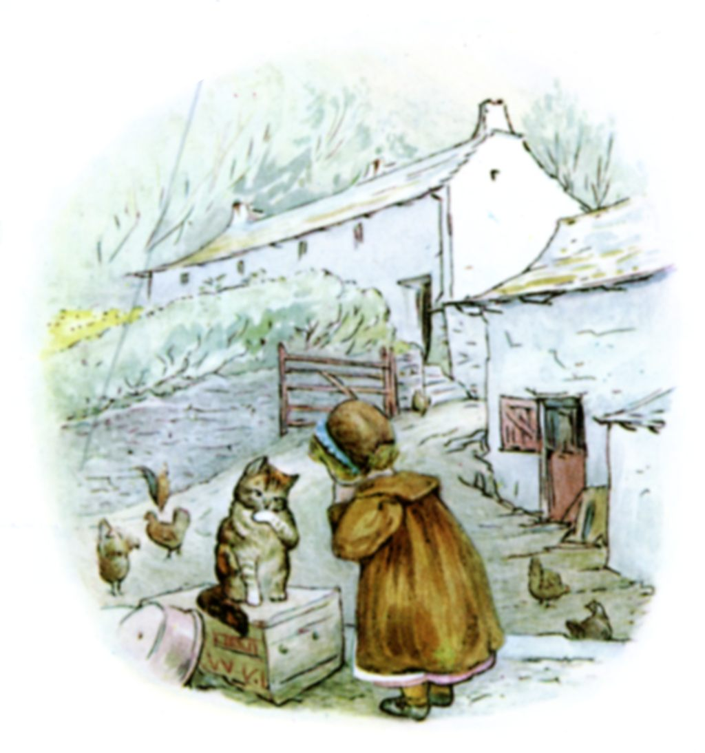 Lucie asking Tabby Kitten about her lost pocket-handkerchiefs, from The Tale of Mrs. Tiggy-Winkle